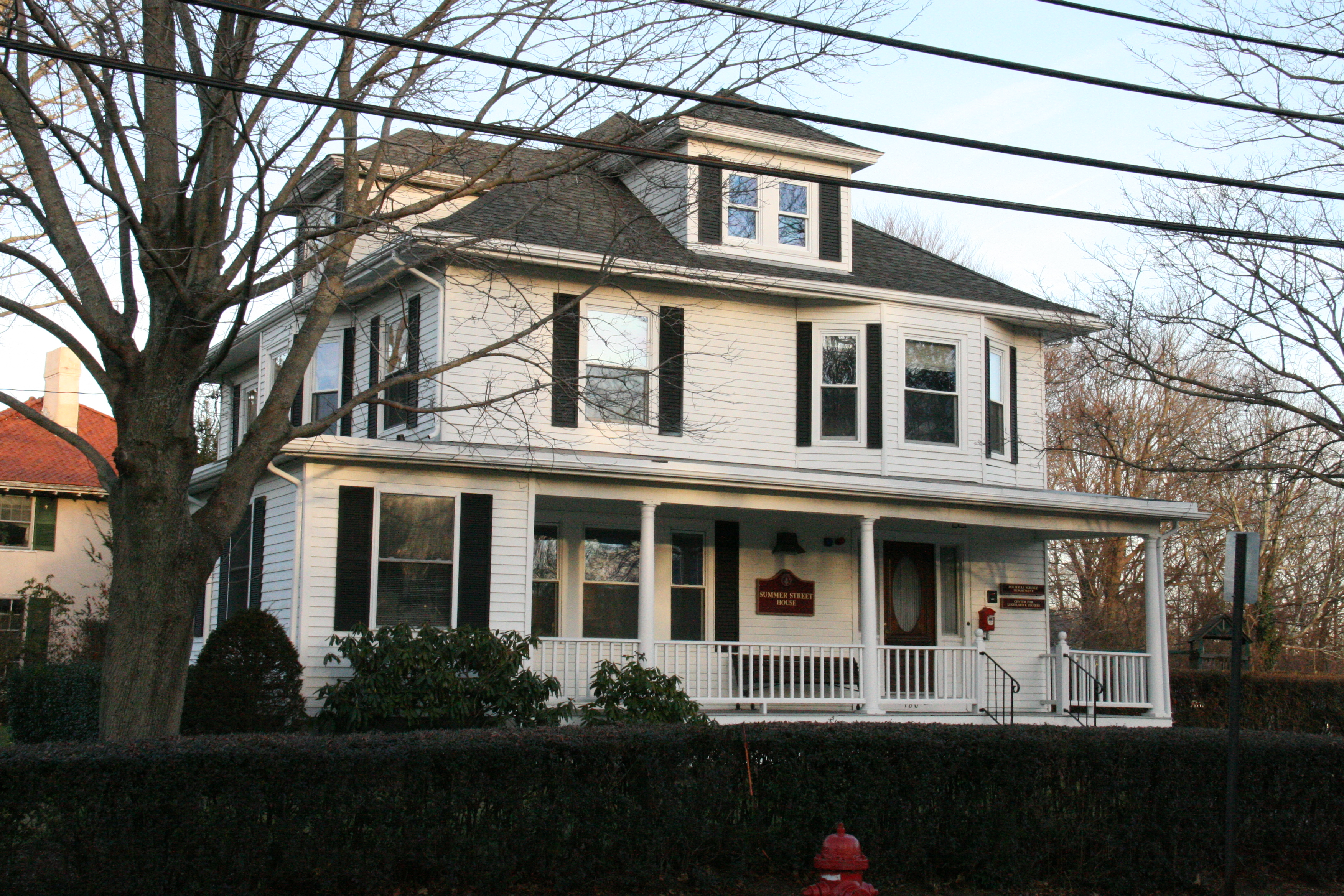 Bridgewater University 180 Summer St. Bridgewater Ma.